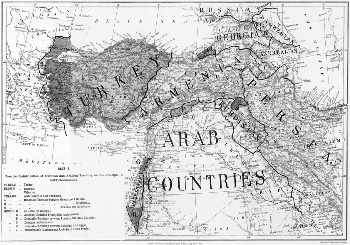 Map from CAB 24/72/7: "Maps illustrating the Settlement of Turkey and the Arabian Peninsula", forming an annex to: CAB 24/72/6, a British Cabinet memorandum on "The Settlement of Turkey and the Arablan Peninsula"